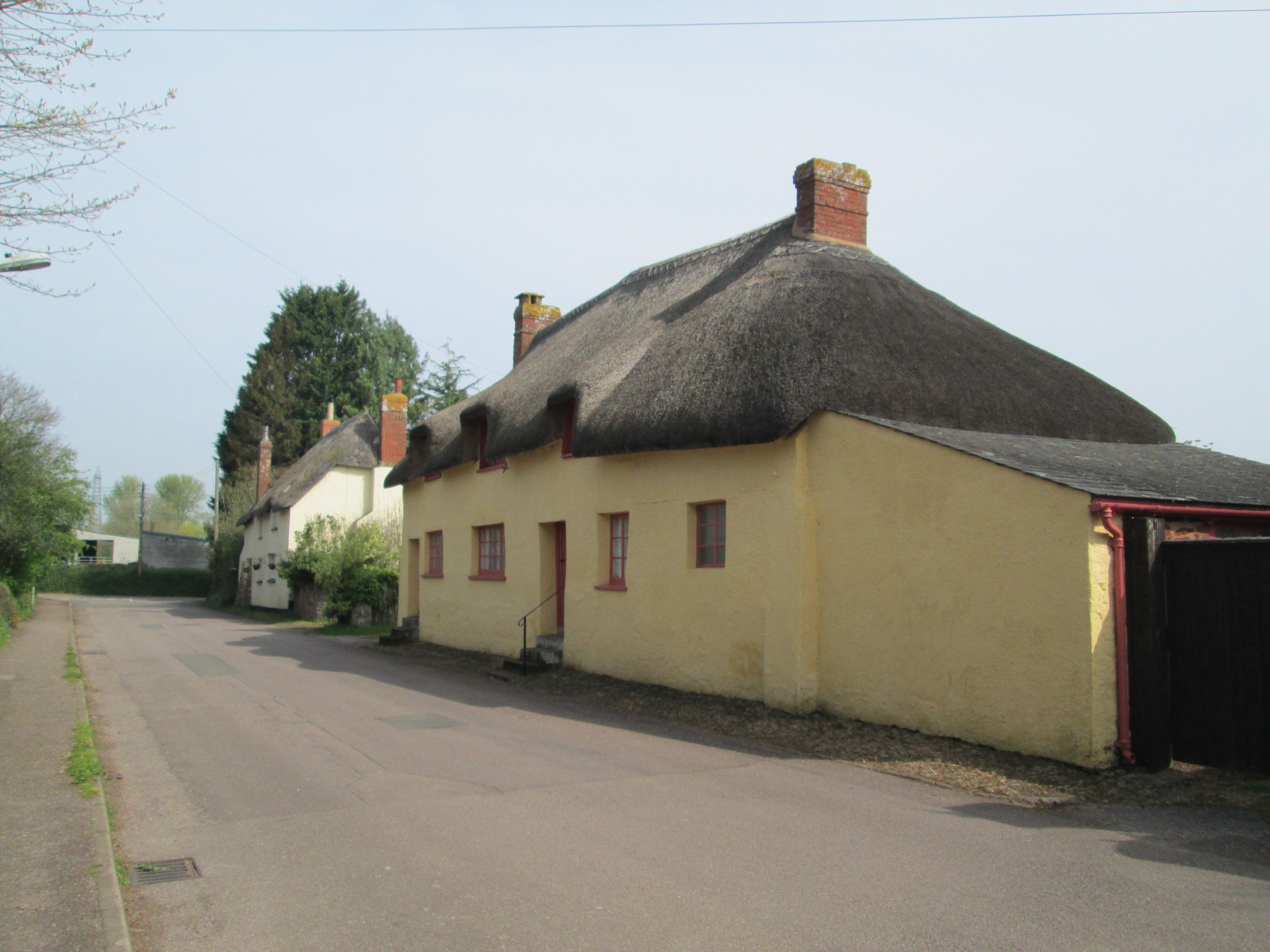 Marker's Cottage, a 15th-century, Grade II* listed building in Broadclyst, Devon.